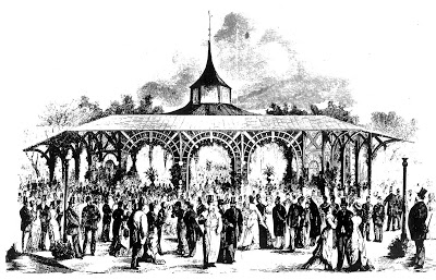 The first Glassalen Building in Tivoli Gardens in Copenhagen, Denmark